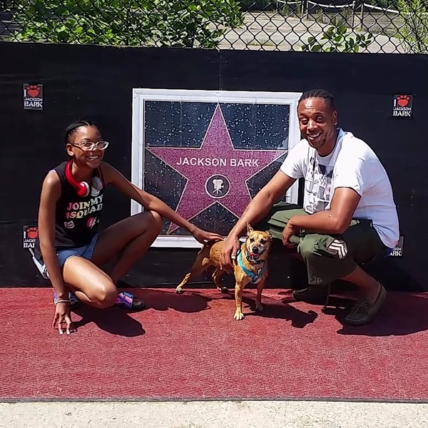 Hollywood puparazzi board red-carpet photo-op feature